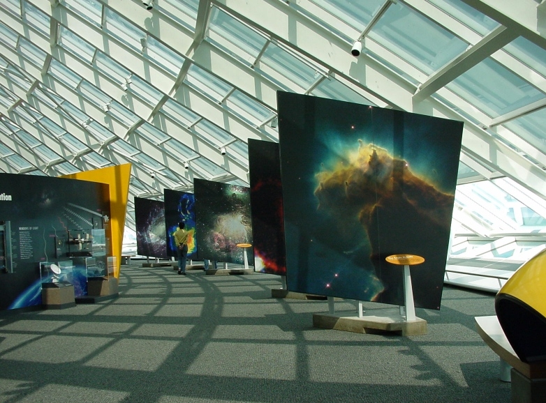 Adler Planetarium, Chicago, Illinois, USA